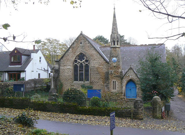 United Reformed Church On Lambley Lane, this was formerly a Congregational chapel.